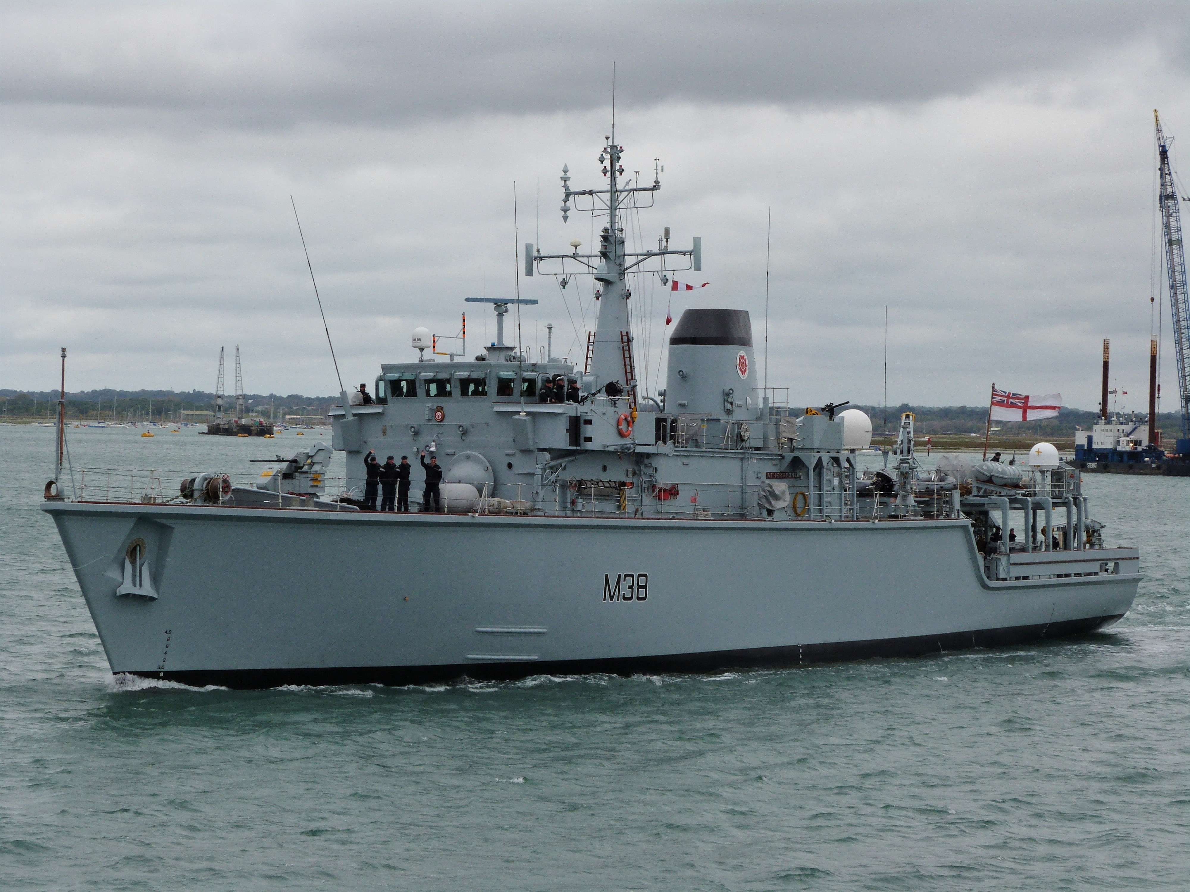 HMS Atherstone, a "Hunt" Class mine countermeasures vessel, seen leaving Portsmouth Harbour, Hampshire.